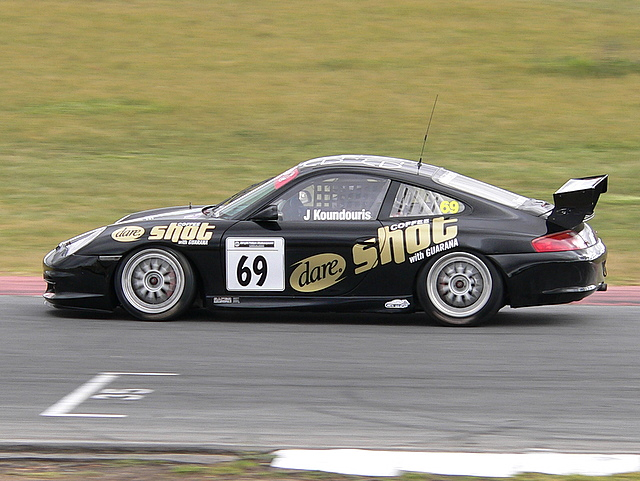 2006 Australian GT Championship season Porsche GT3 Cup race car number 69 driven by James Koundouris during Round 5 at Mallala Motor Sport Park